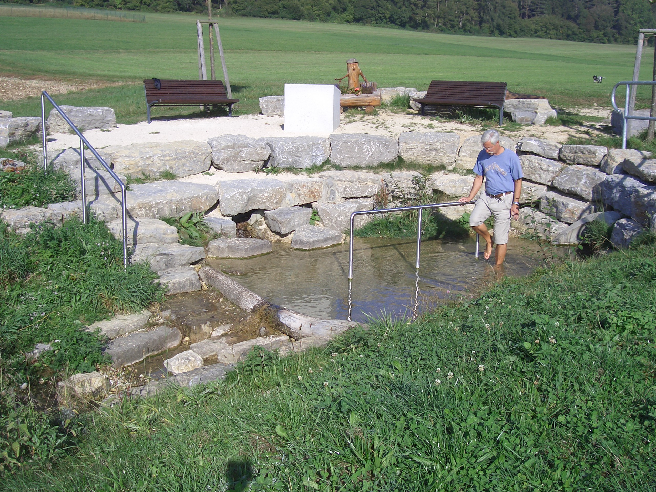 Water wading basin of barefoot trail at Balgheim, Germany